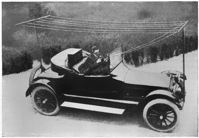 An amateur radio set installed in a car by A. H. Grebe, a radio manufacturer of New York in 1919, who is shown speaking into the microphone. The bulky vacuum tube set is visible in the back seat. It used medium wave frequencies around 2 MHz, requiring the cumbersome "inverted L" wire antenna mounted on the bumpers, which could be quickly put up and taken down and stowed under the car's chassis. The car's body was used as a counterpoise. The radio set was powered by a separate storage battery, with a small dynamotor to generate high voltage for the tubes anode supply. Grebe noted that he could hear other cars approaching on the road, as the receiver would pick up the radio noise from their unshielded spark plugs. Broadcasting began in 1920, about the time vacuum tube radio receivers became available, sparking a "radio craze" during the early Roaring 20s. Many car owners installed home radio sets in their cars.as a novelty. Car radios weren't manufactured until 1930, and did not come standard in vehicles until a number of years later. Caption:"CUMBERSOME - BUT ESSENTIALLY PRACTICAL. Here is a real antenna, easily dismantled, that A. H. Grebe, of New York, uses for transmitting and receiving."